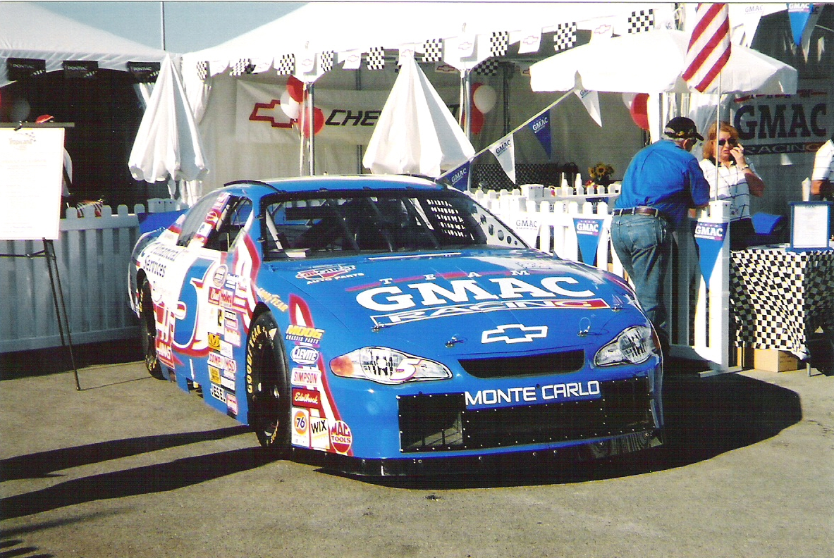 Rick Hendrick car at 2002 Tropicana 400